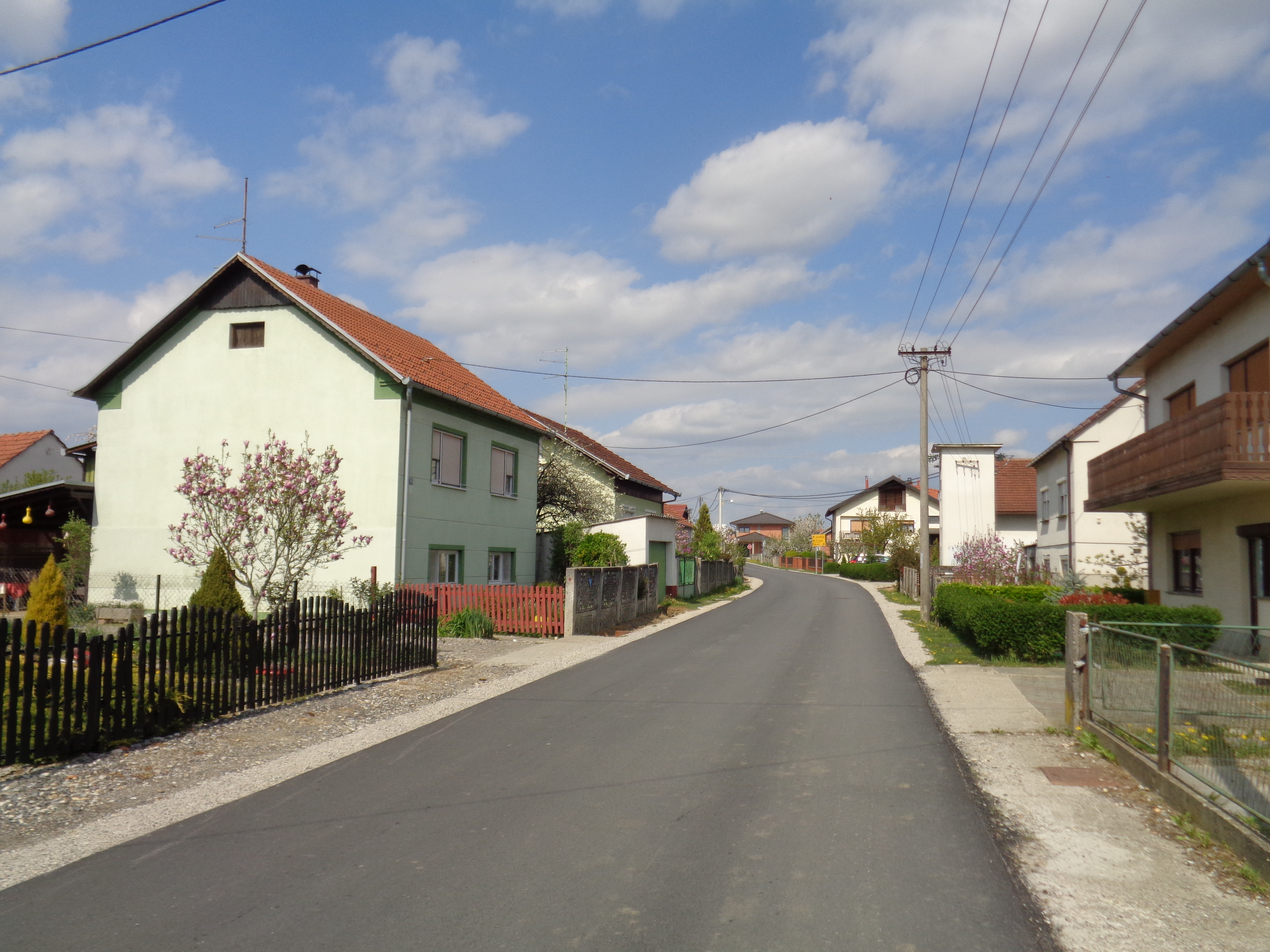 Brezje (Međimurje County, Croatia) - houses along the village street